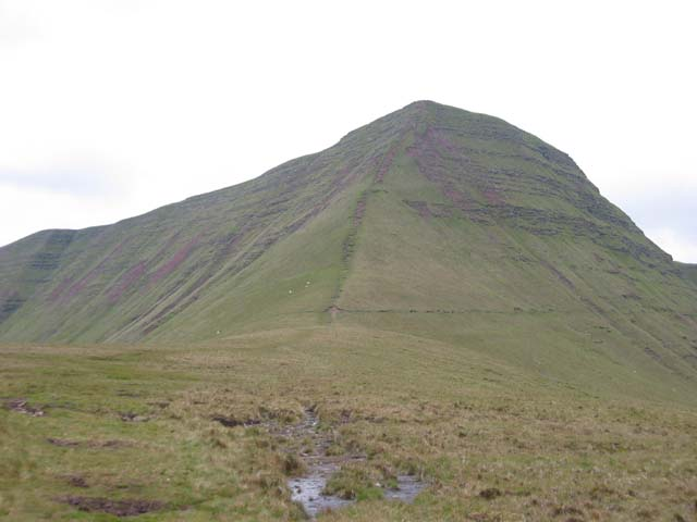 Cribyn